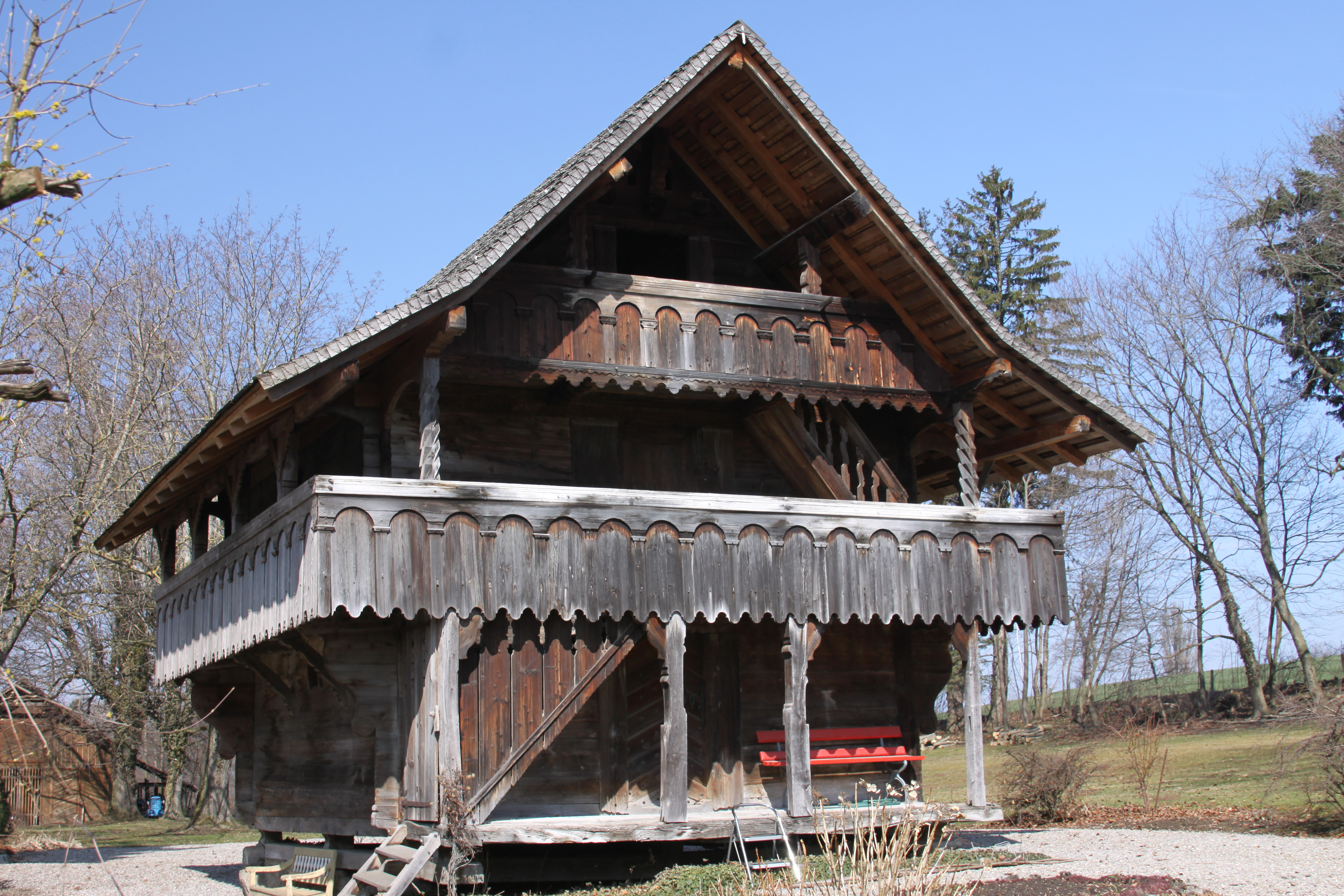 Granary of En-Haut Castle, Route de Pierrafortscha 1a, Granges-sur-Marly